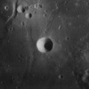 Clerke, on the moon.